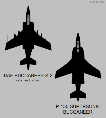 Plan-view silhouettes of the Blackburn Buccaneer S.2 and B.150 supersonic Buccaneer